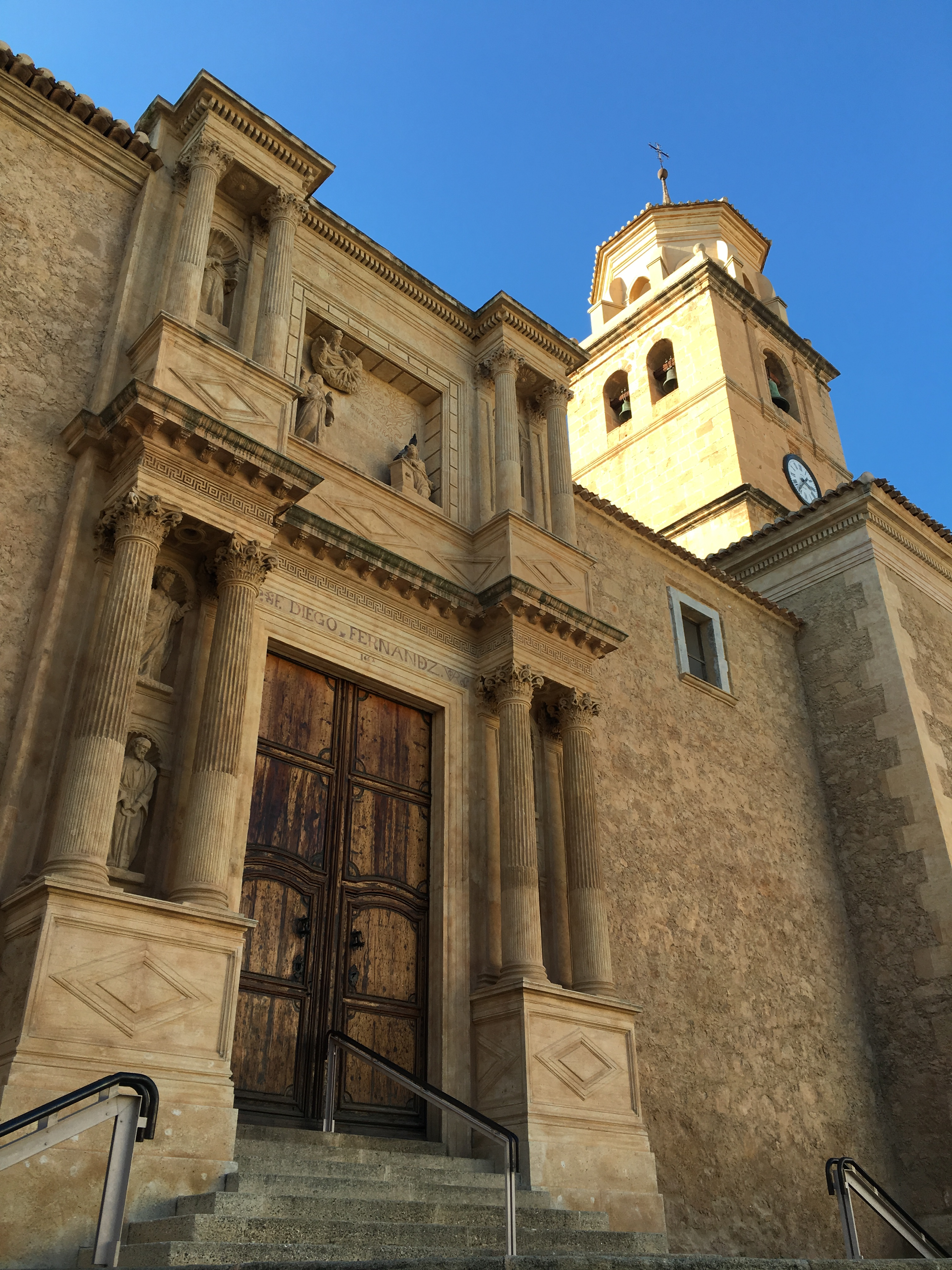 Church of the Asunción, Hellín